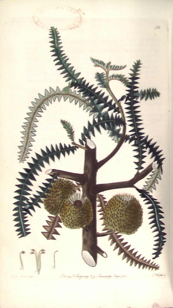 This is an engraving of Banksia dryandroides (Dryandra-leaved Banksia). It is Plate 56 of Robert Sweet's 1828 book Flora Australasica.